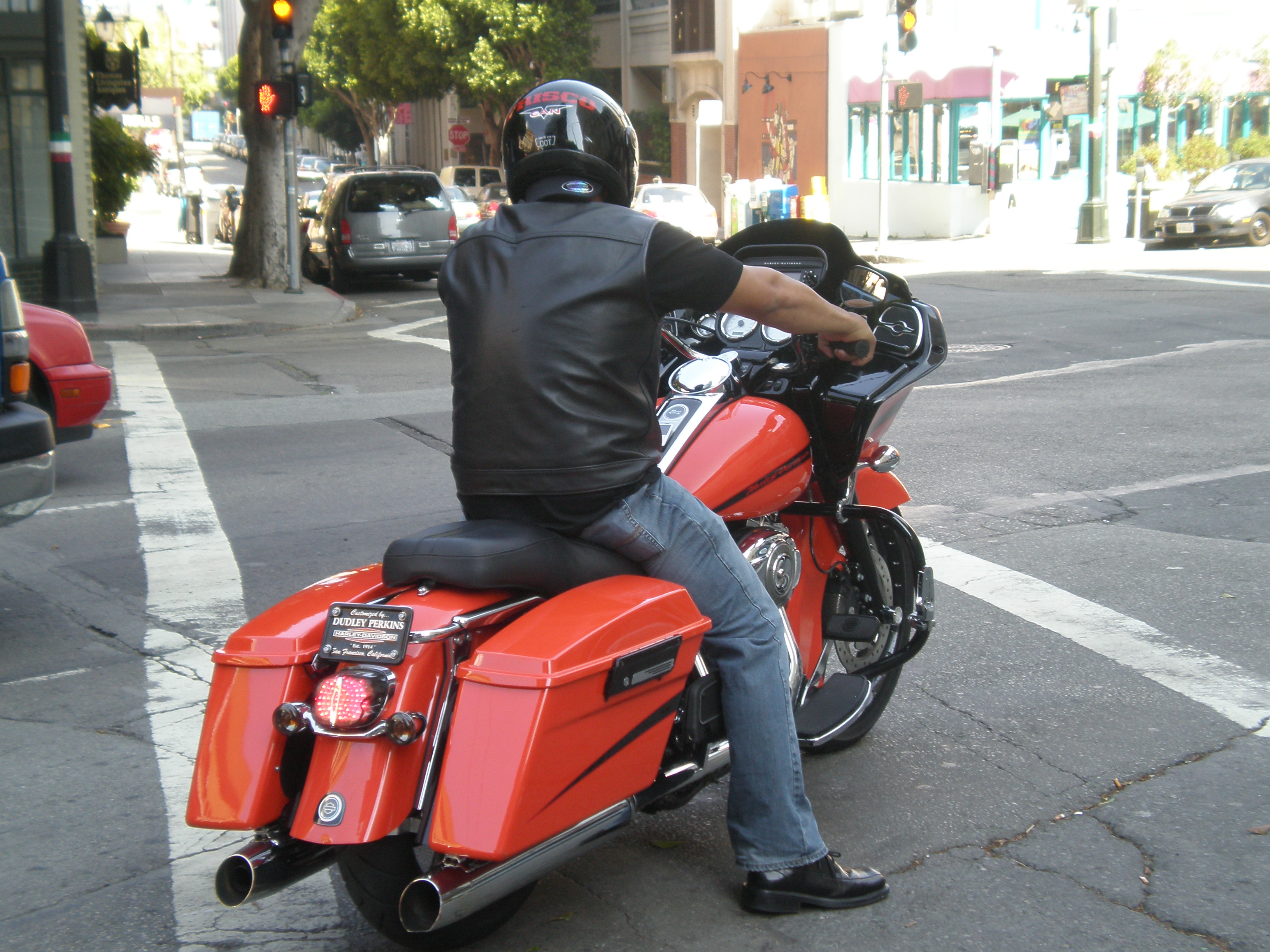 A 2008 Harley-Davidson FLHX Street Glide in San Francisco.